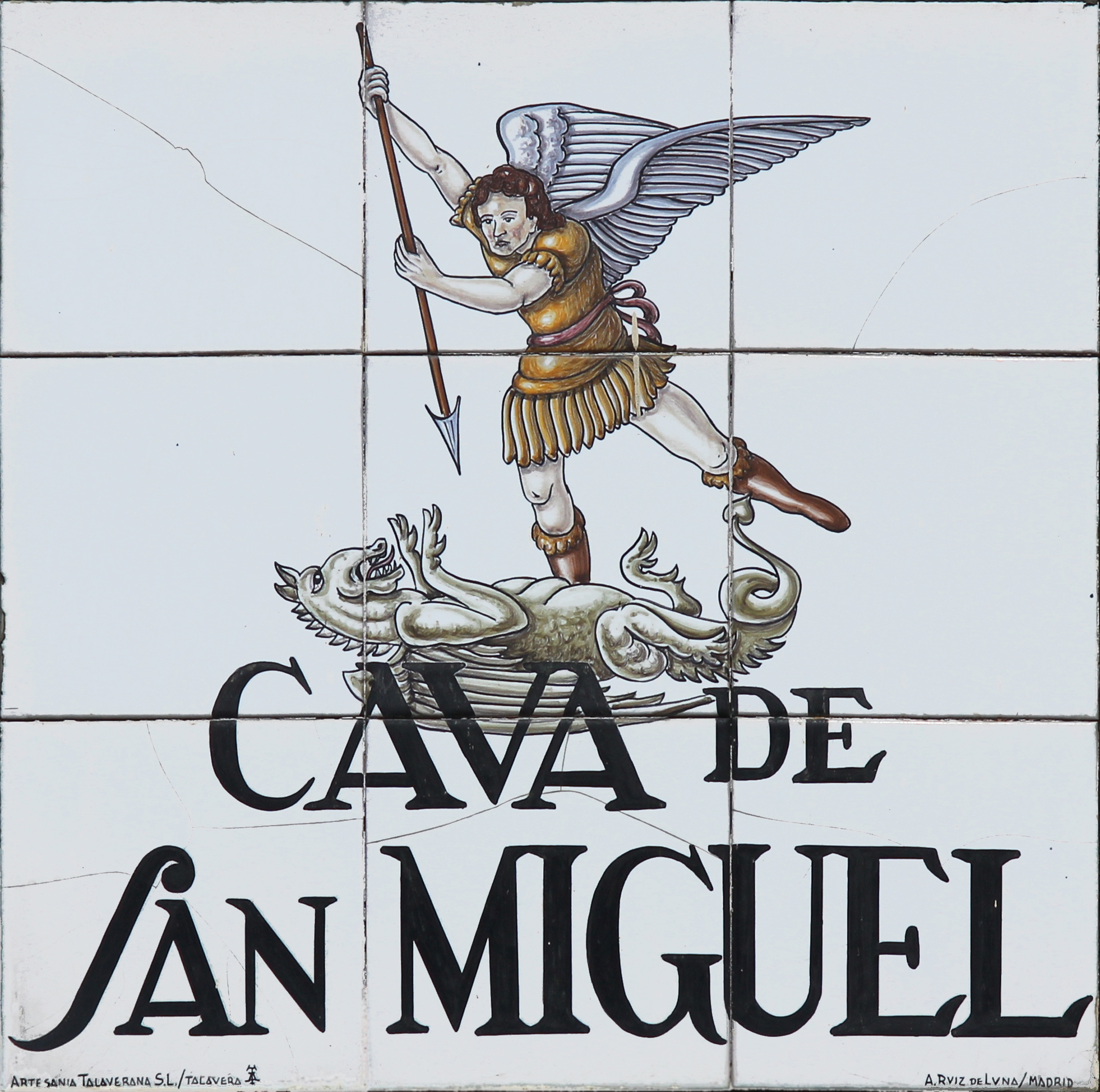 Sign of Cava de San Miguel (street) in Madrid (Spain).